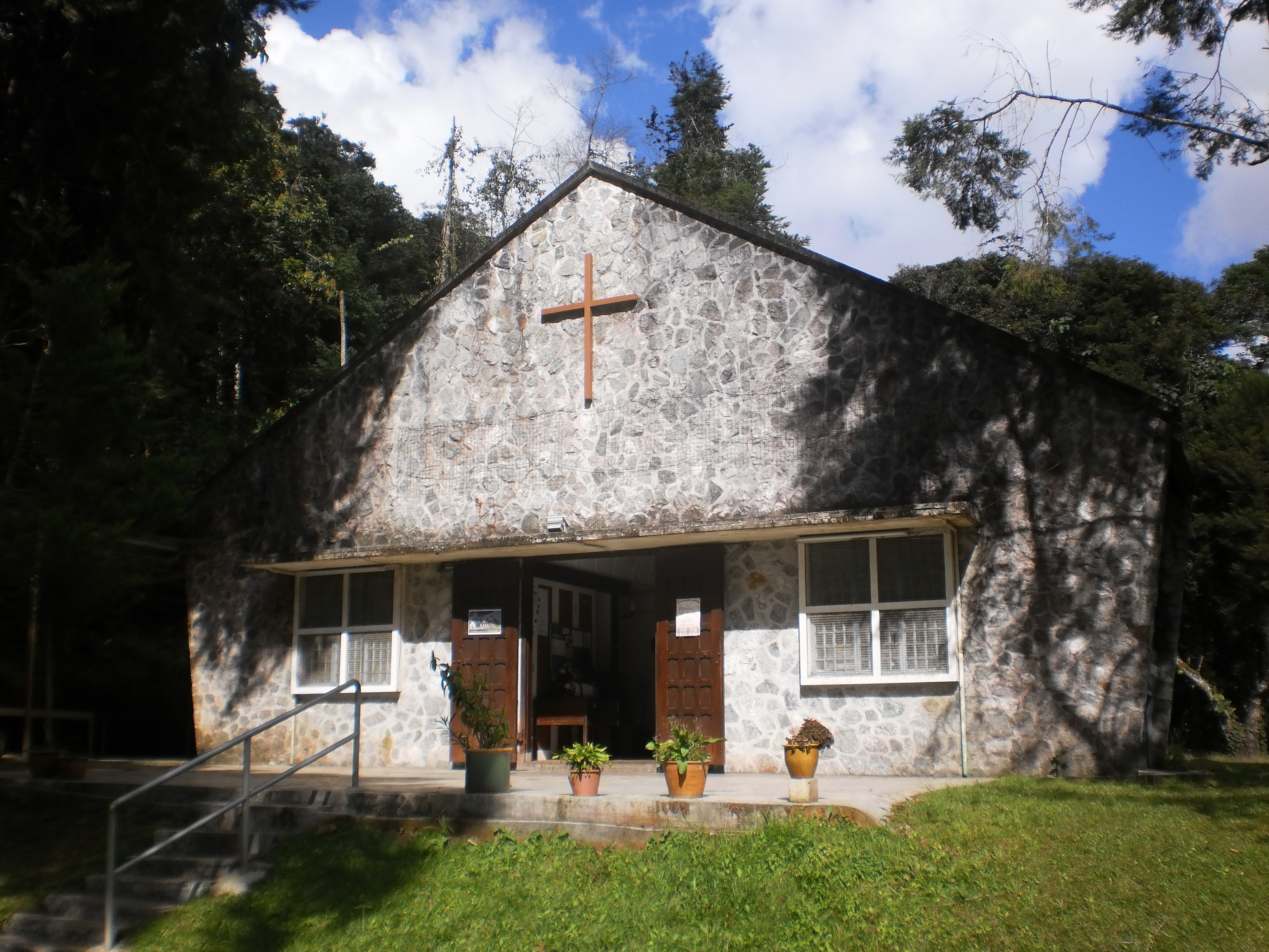 All Souls’ Church, Cameron Highlands. Address: Jalan Perjabat Hutan, Taman Sedia, 39000, Tanah Rata, Cameron Highlands, Pahang, West Malaysia.